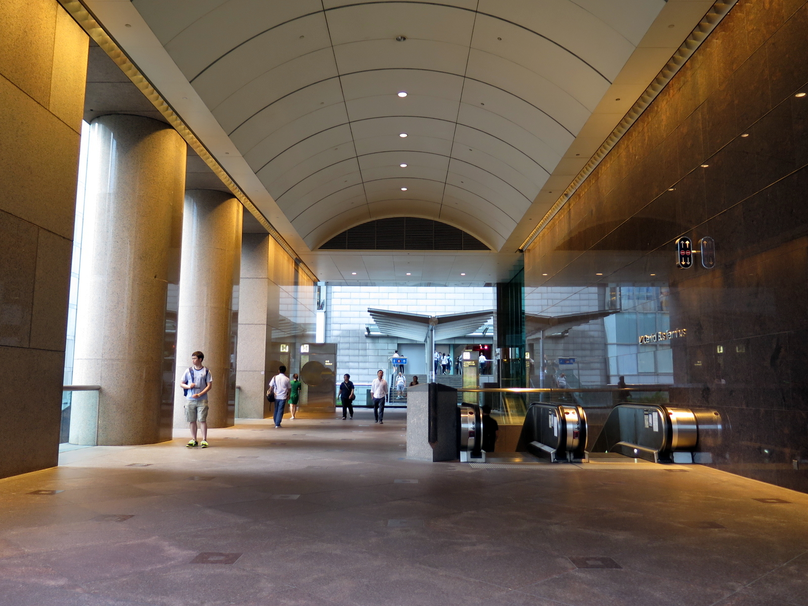 The Forum at Exchange Square